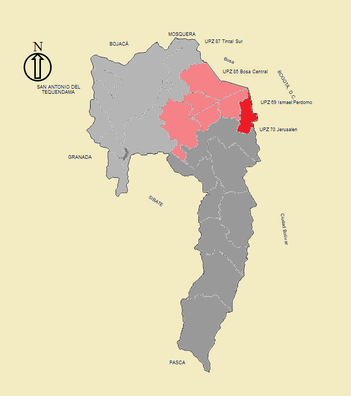 Commune 4 Cazucá map, Municipality of Soacha (department of Cundinamarca, Colombia)